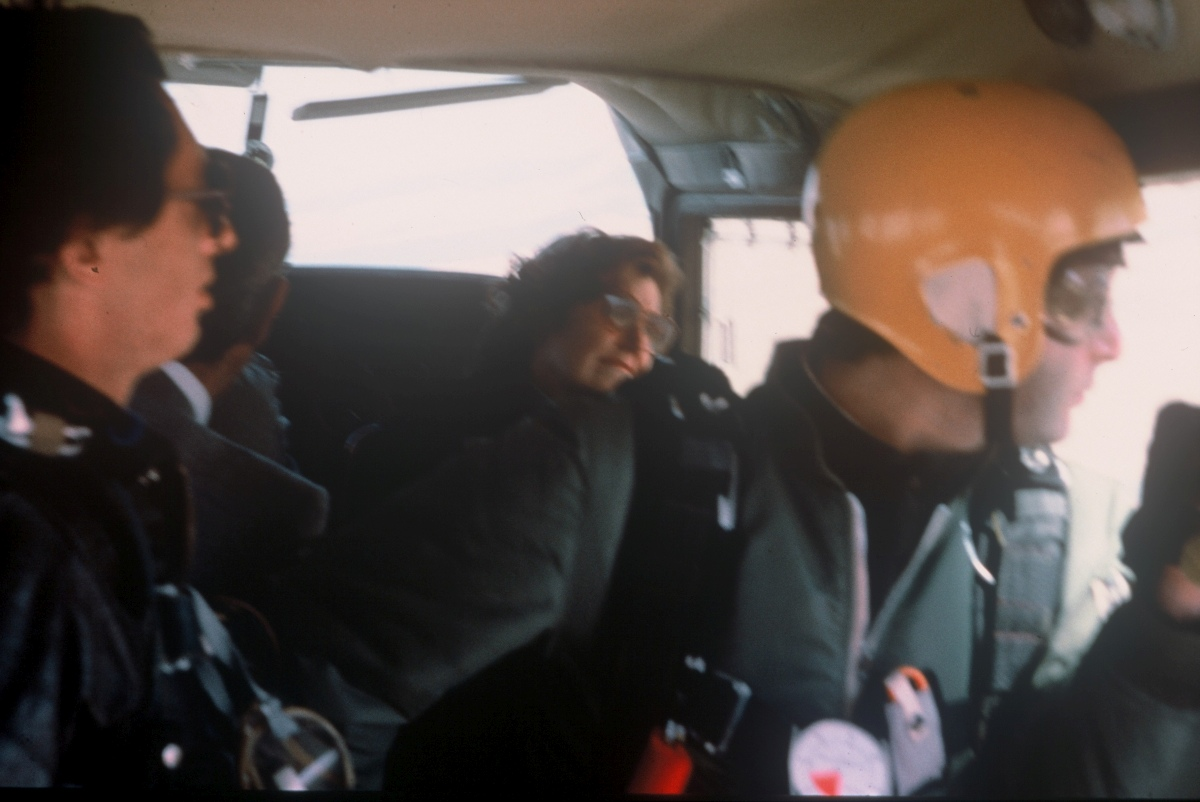 Friends of Eduardo Castellanos, El Pira, and Mrs. Fuillerat, his mother, aboard EC-BYQ